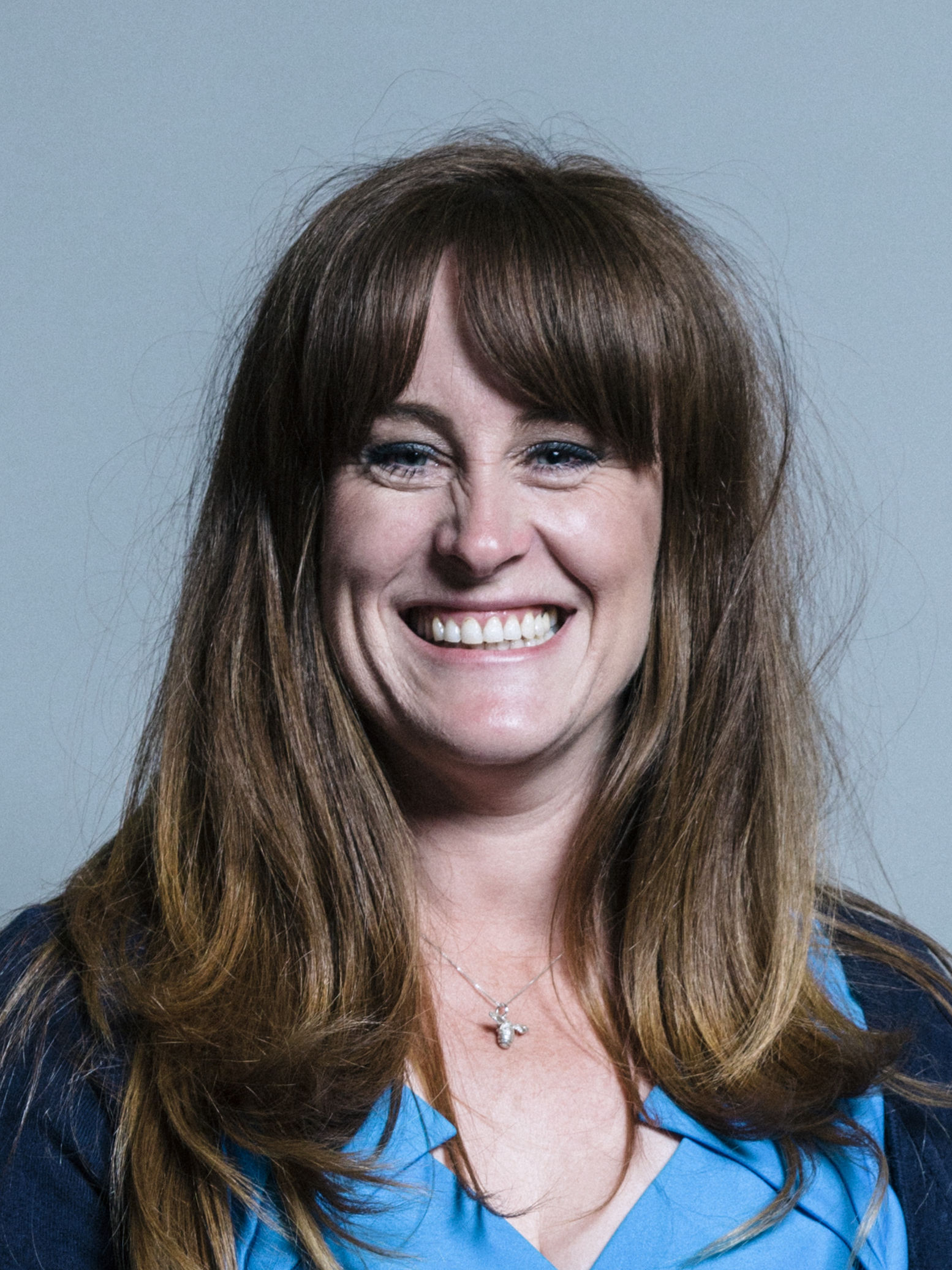 Official portrait of Kelly Tolhurst